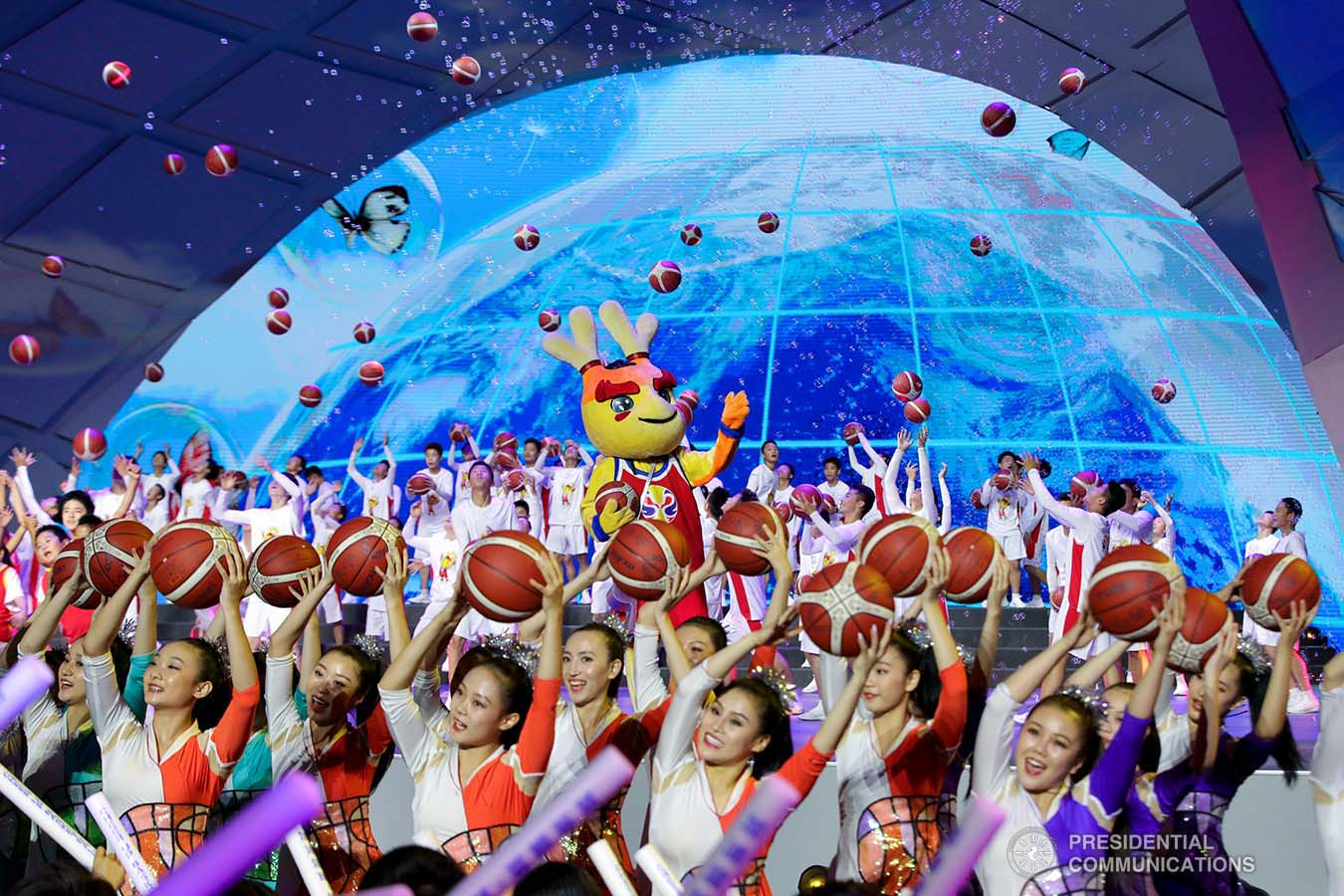 Performers entertain the attendees during the opening ceremony of the FIBA Basketball World Cup 2019 at the National Aquatics Center in Beijing, People's Republic of China on August 30, 2019. President Rodrigo Roa Duterte was among the guests during the opening of the prestigious international cagefest. ROBINSON NIÑAL JR./PRESIDENTIAL PHOTO